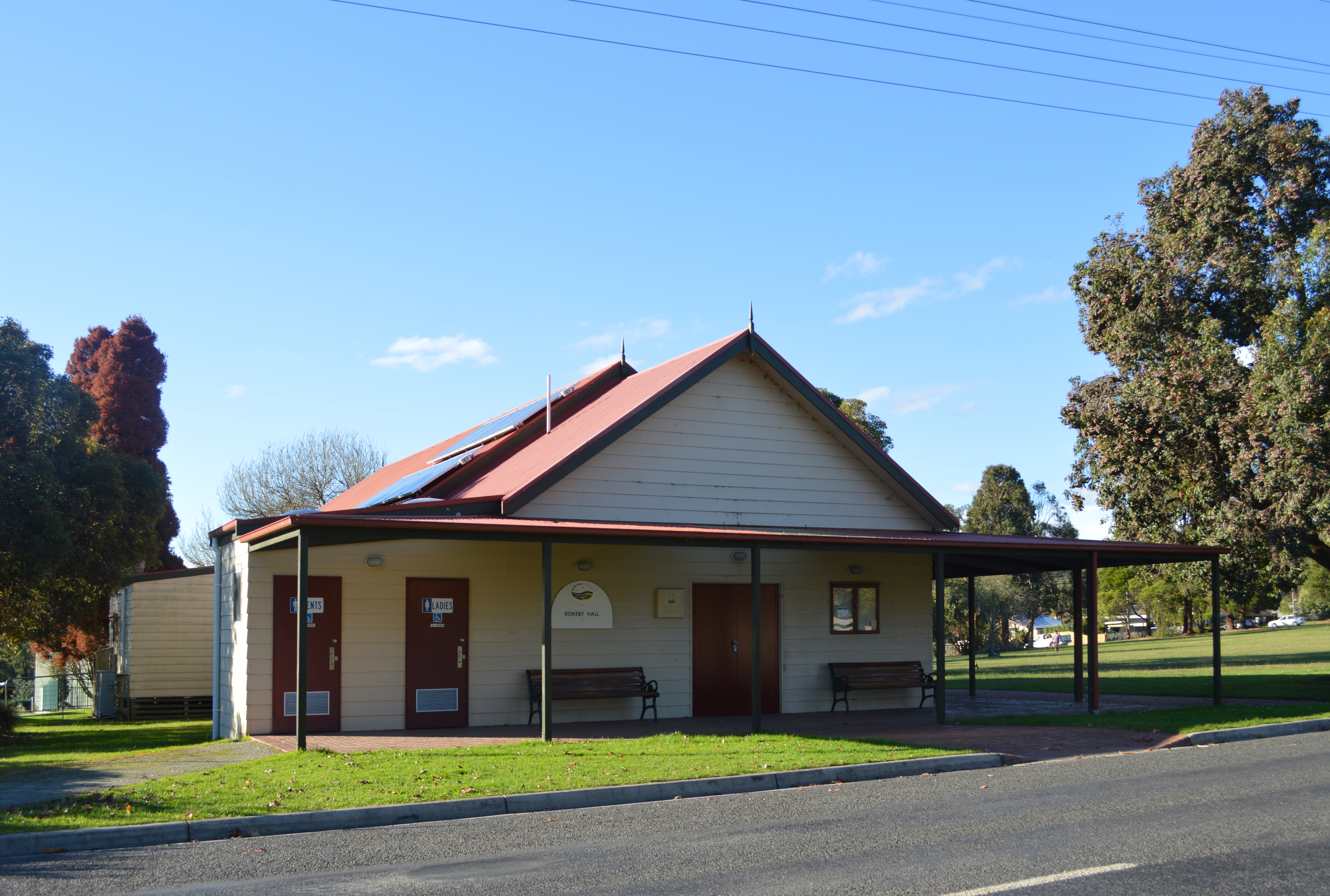 Public hall at Rokeby, Victoria